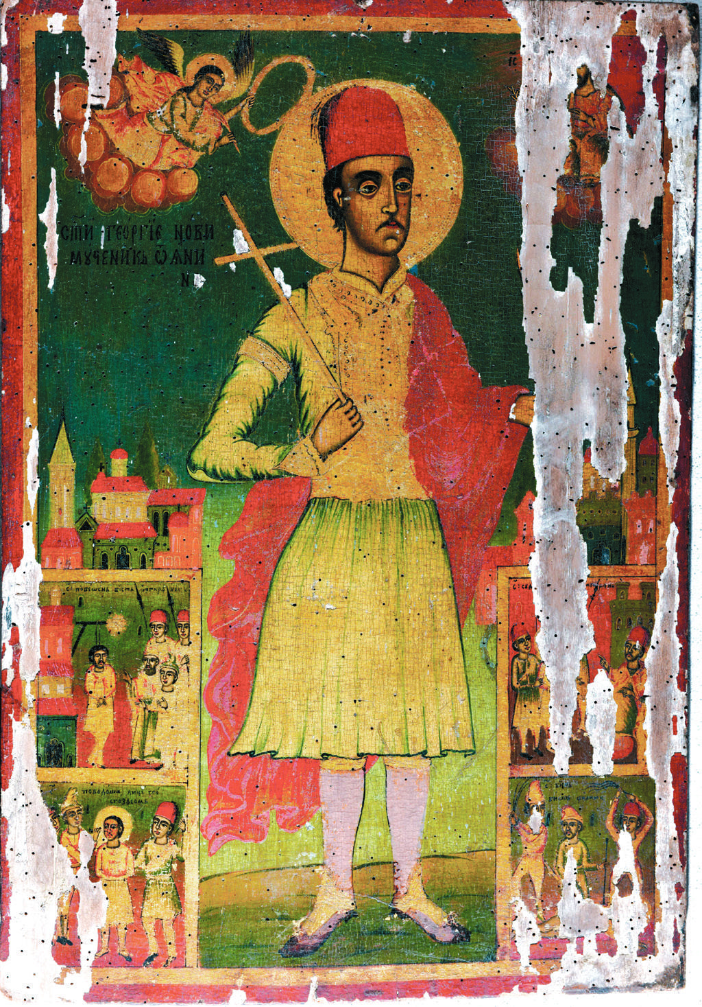 Saint George of Ioannina Icon, 1839, Lom